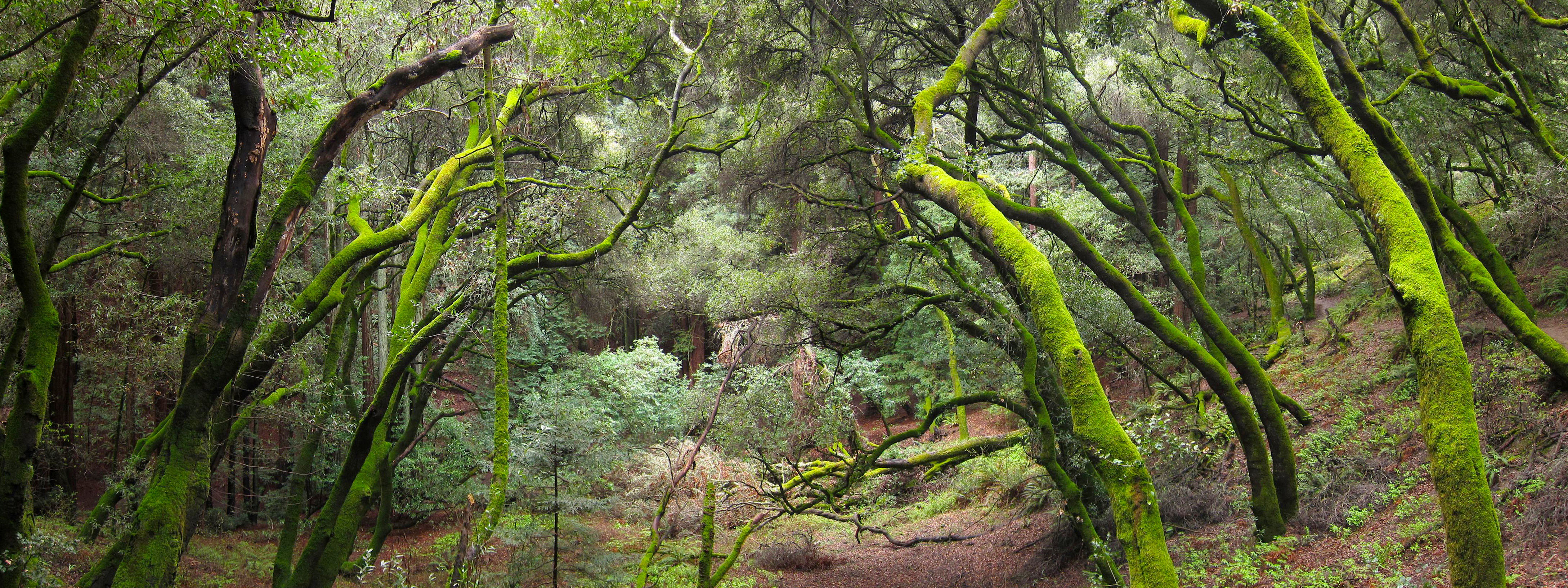 French Trail in Redwood Regional Park, 3/25/12